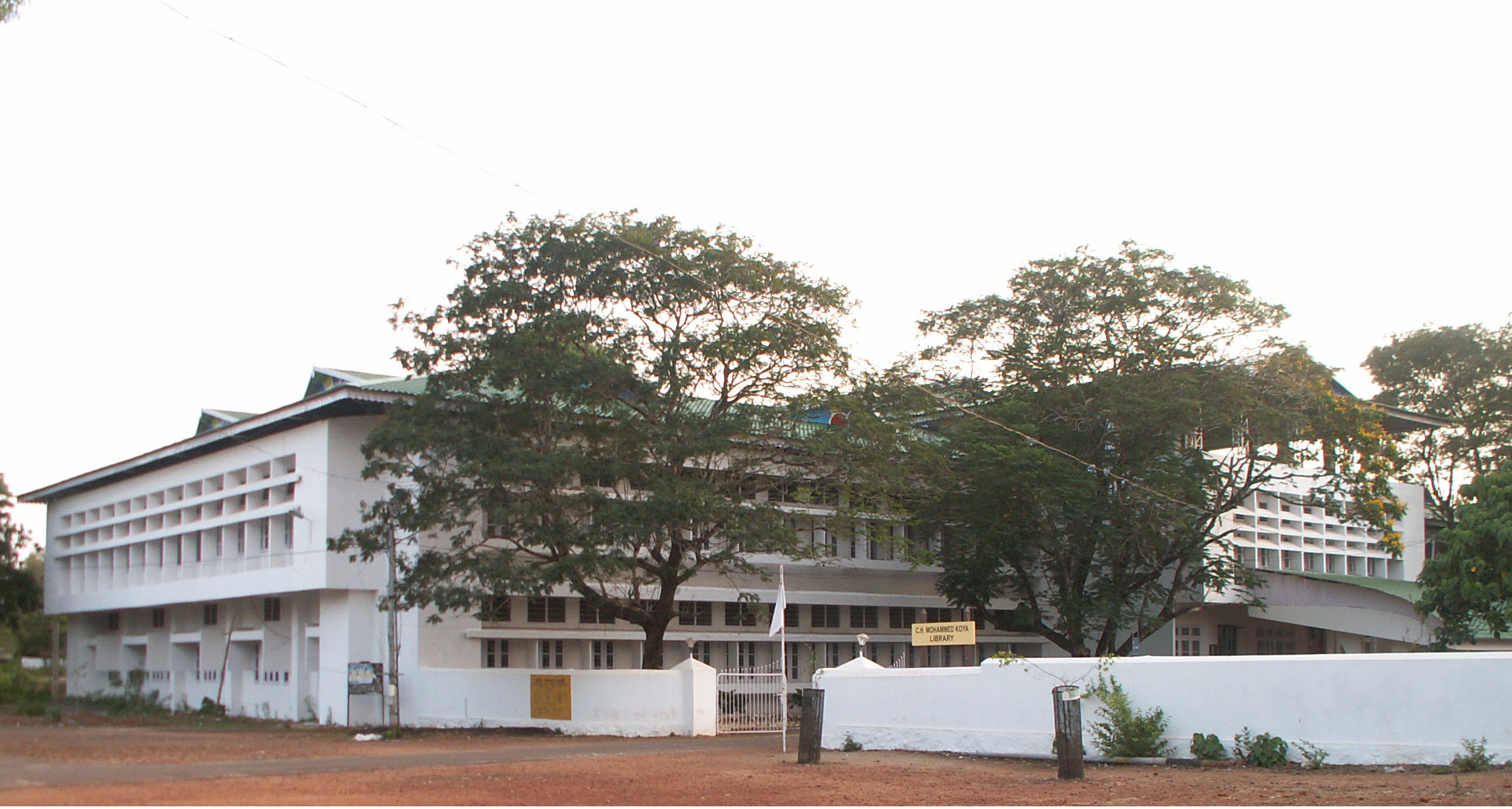 A side view from near the entrance of the C H Mohammed Koya Library in the campus of the University of Calicut. At the entrance stands a flagpole of Students Federation of India, symbolising the overly poticised campus.